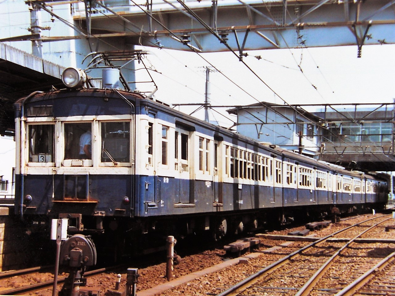 JNR 42 series EMU car KuMoHaYuNi 44802 at the rear of a train at Fuji Station